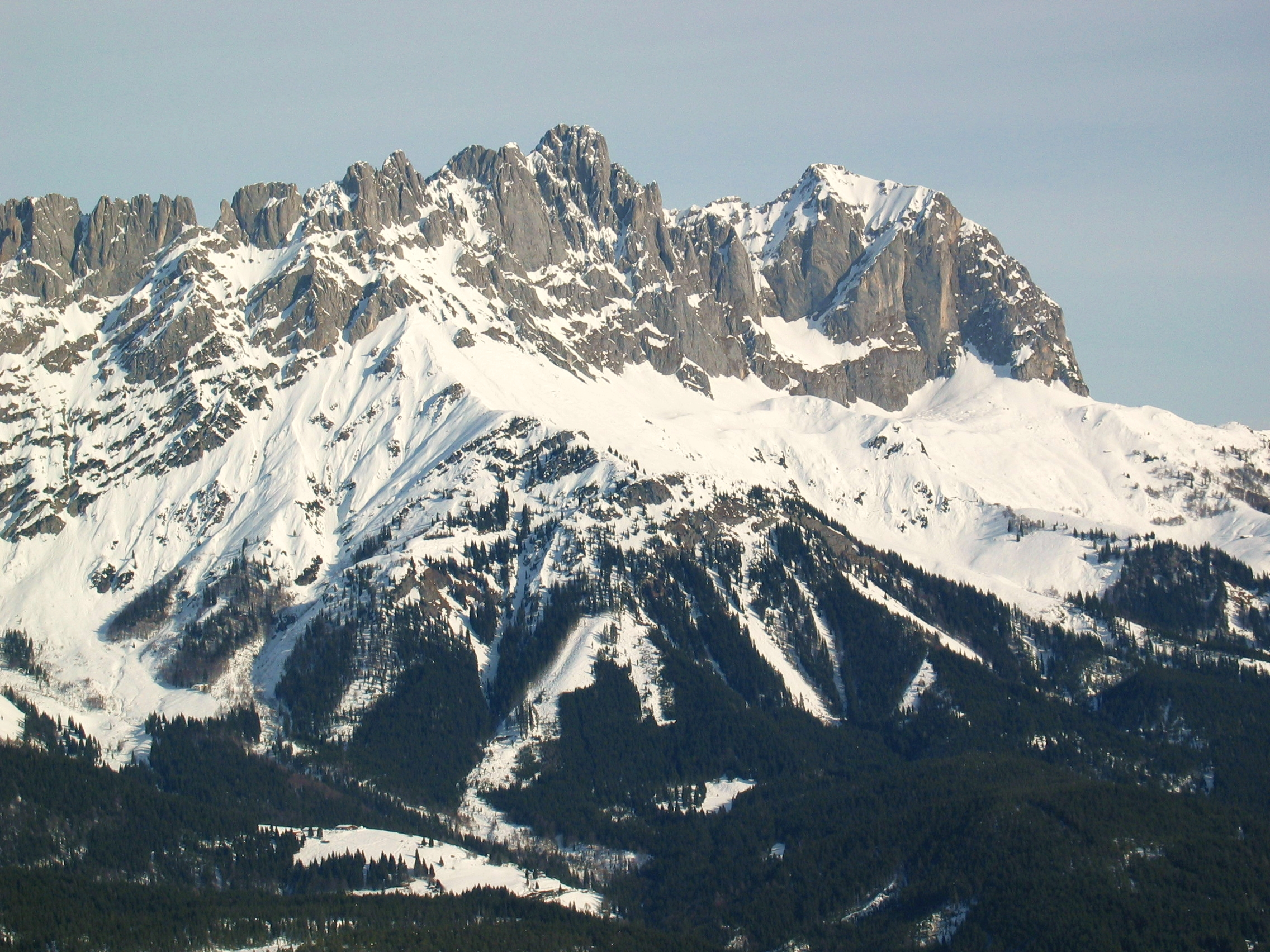 Ackerlspitze (center) and Maukspitze (right), view from Hartkaiser